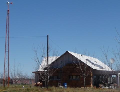 Solar and wind powered house in Orania